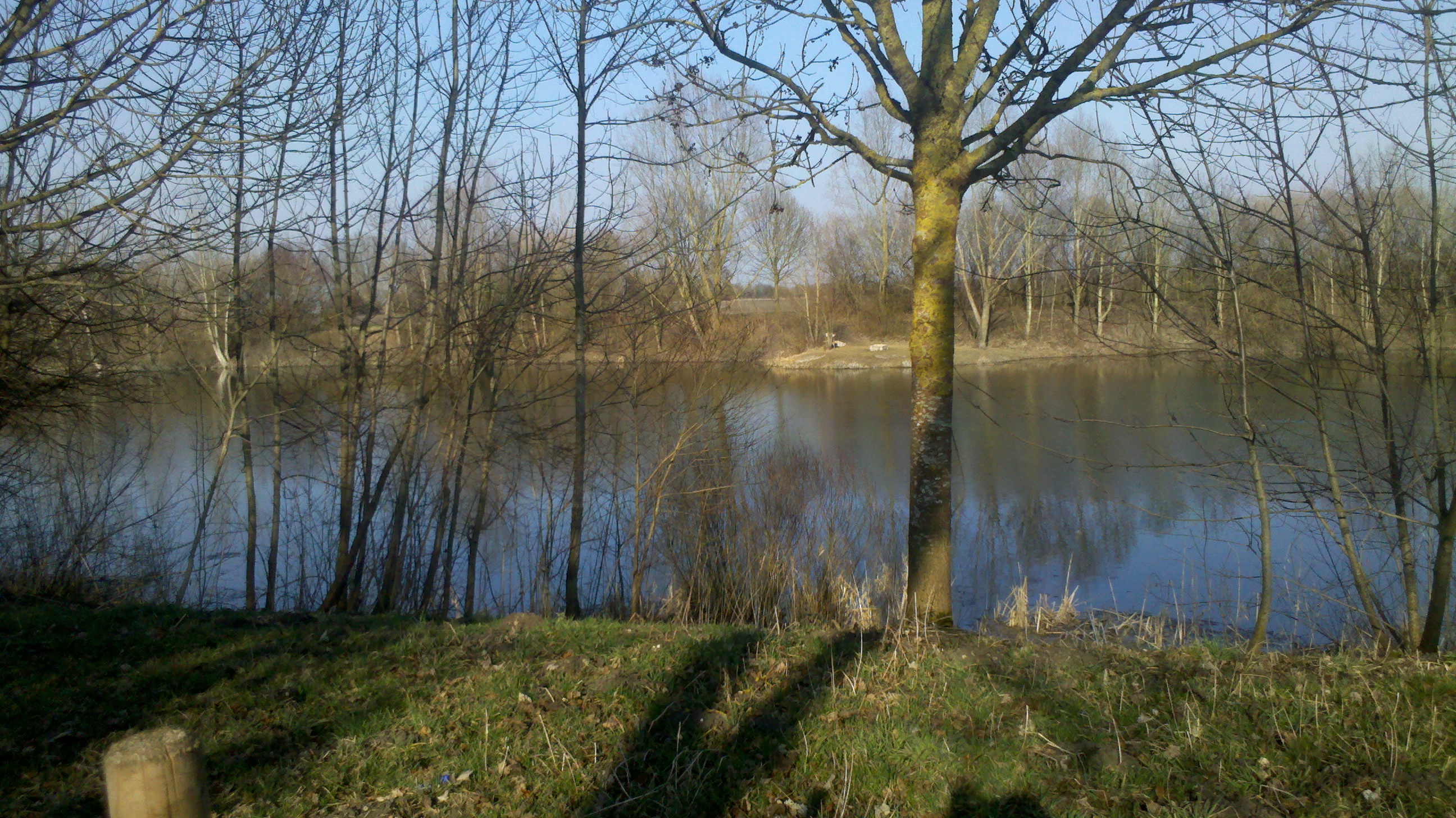 Hausler-See flooded gravel pit close to Scheigbach (Goldach), Germany